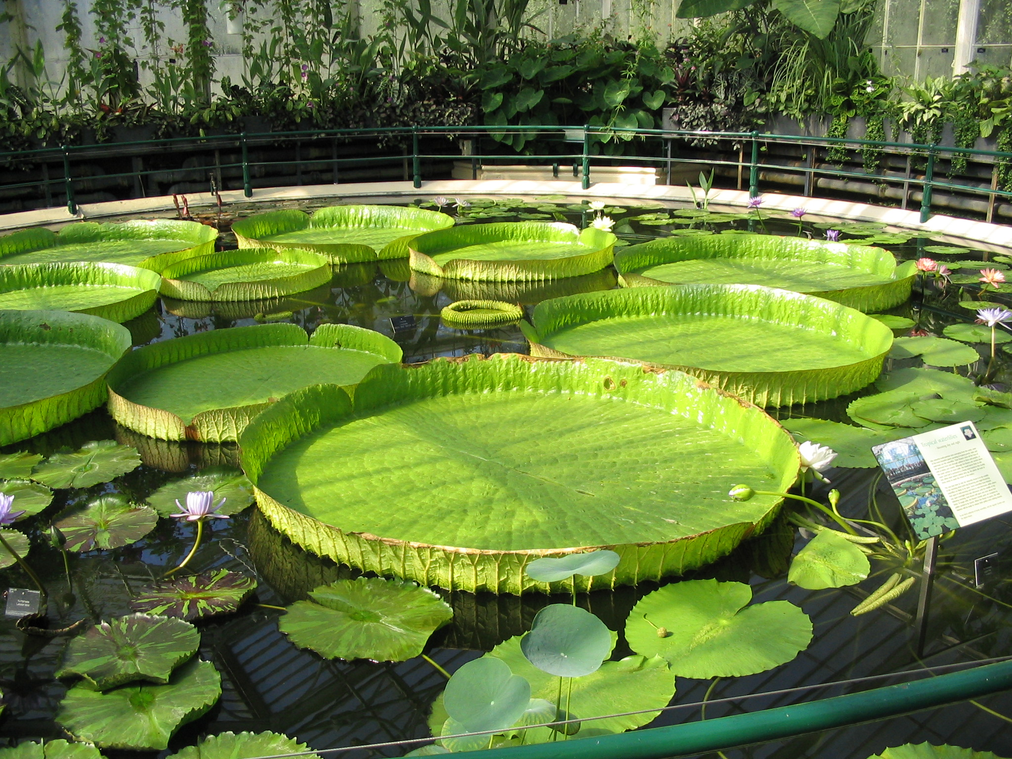 Victoria cruziana at Kew Gardens, London, England.Kew Gardens 2003-07 (17)